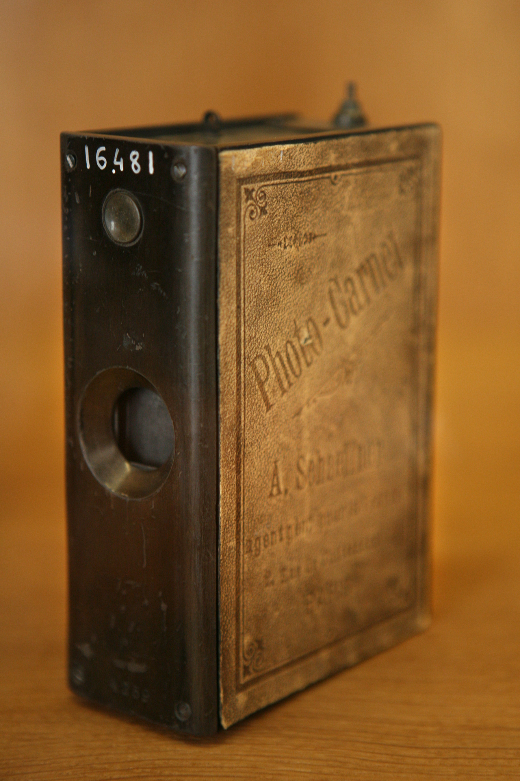 "Photo-Notebook" camera by Rudolph Krügener, 1888. Communication Collection, The Musée des Arts et Métiers, Paris.